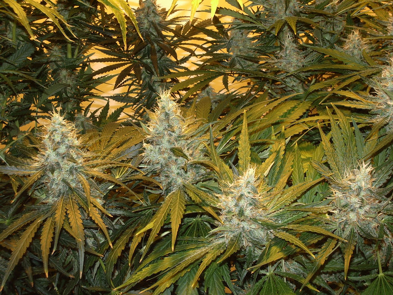 Northern Lights Cannabis